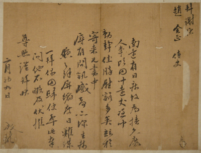 Letter of Ryu Sung-ryong